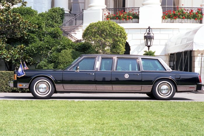 George H.W. Bush 1989 Lincoln presidential limousine